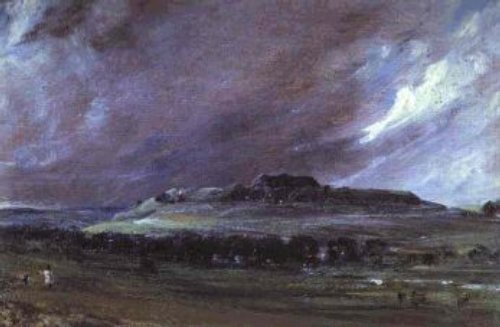 Old Sarum by John Constable, 1829.